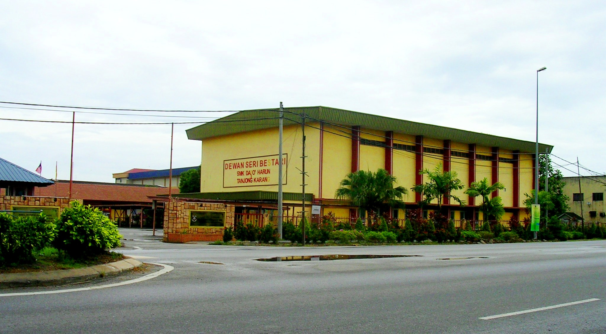 Bangunan sekolah